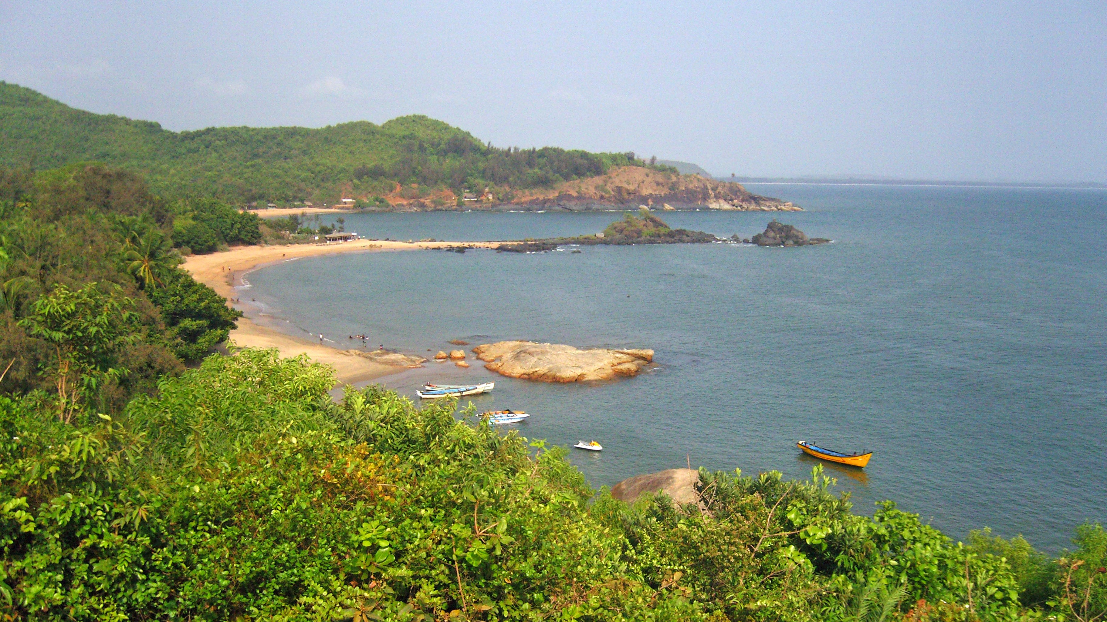 Boating services seen in Om beach, 5km from Gokarna, India.